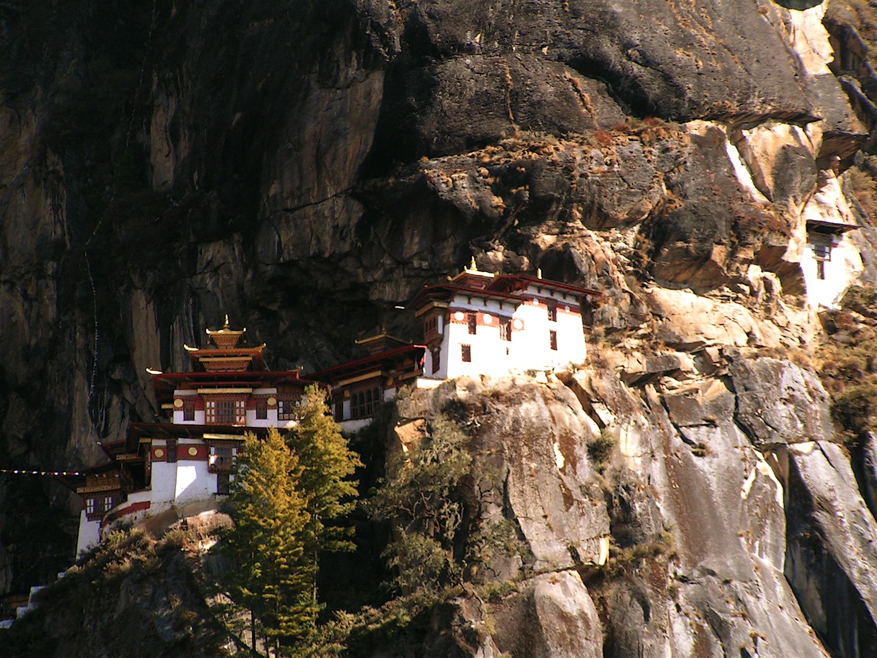 Tigers Nest Monastery in Bhutan